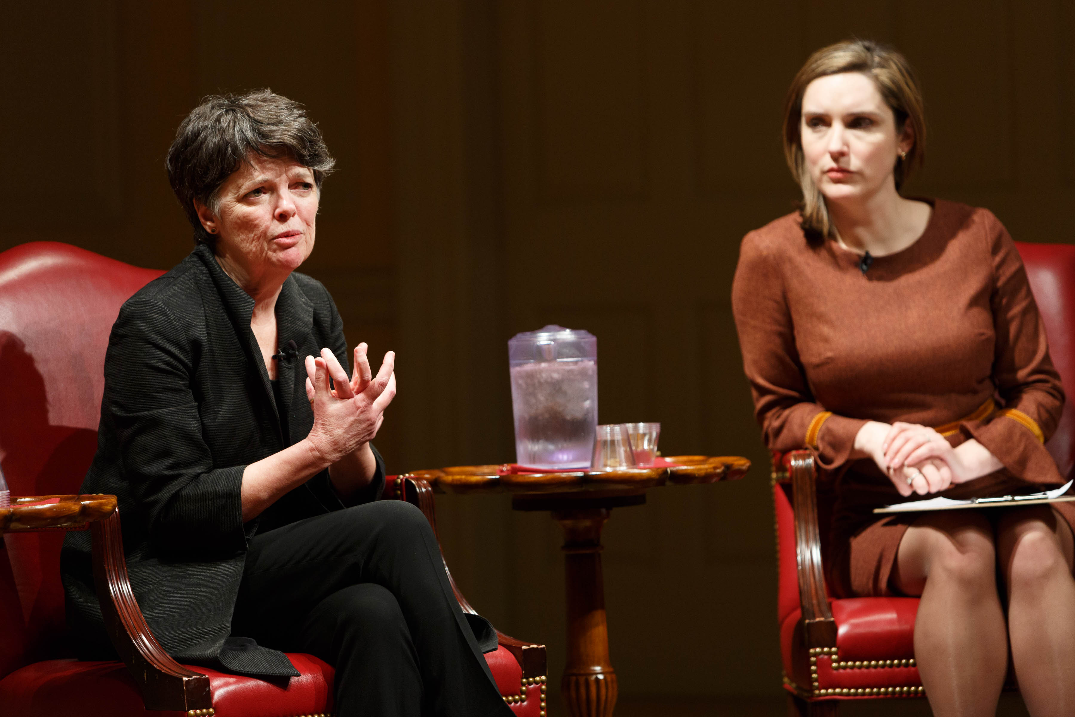 Alice McDermott and Margaret Brennan discuss their Irish heritage during a National Book Festival Presents event, February 6, 2020. Photo by Shawn Miller/Library of Congress. Note: Privacy and publicity rights for individuals depicted may apply.